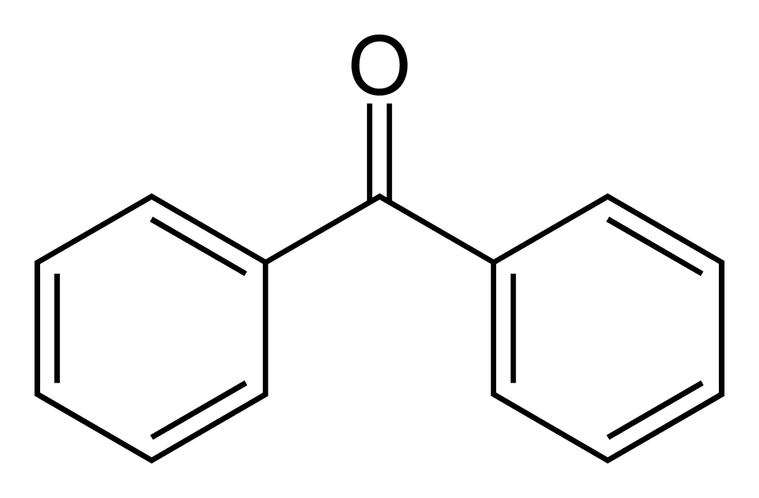 Skeletal formula of benzophenone